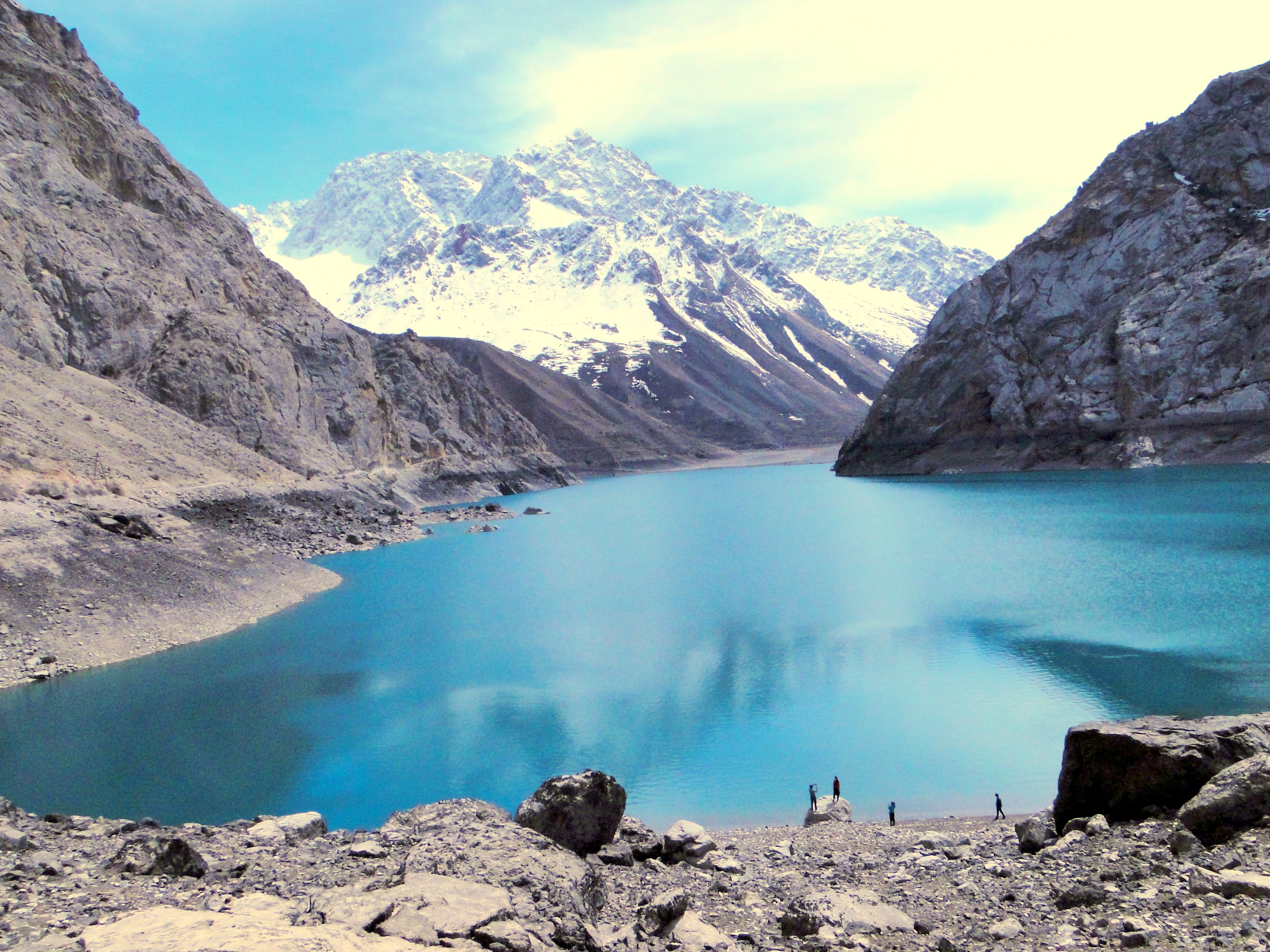 Lake in the Fan Mountains. Tajikistan